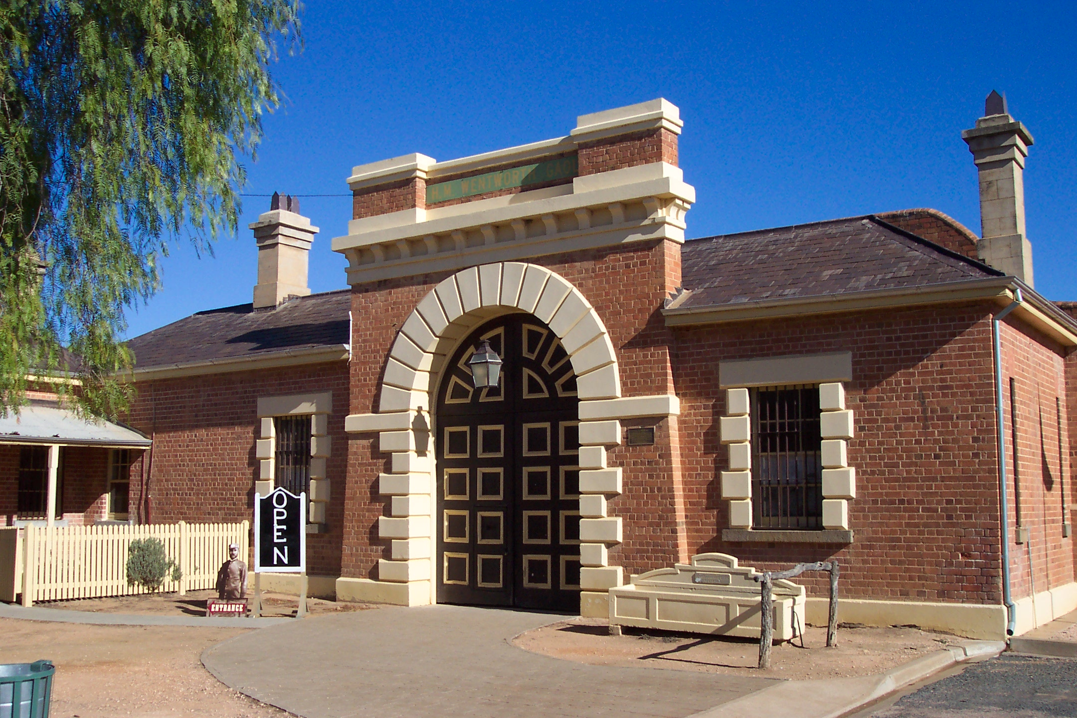 Main gate of the Wentworth Gaol and an Bills horse trough (Right hand side of the photograph)